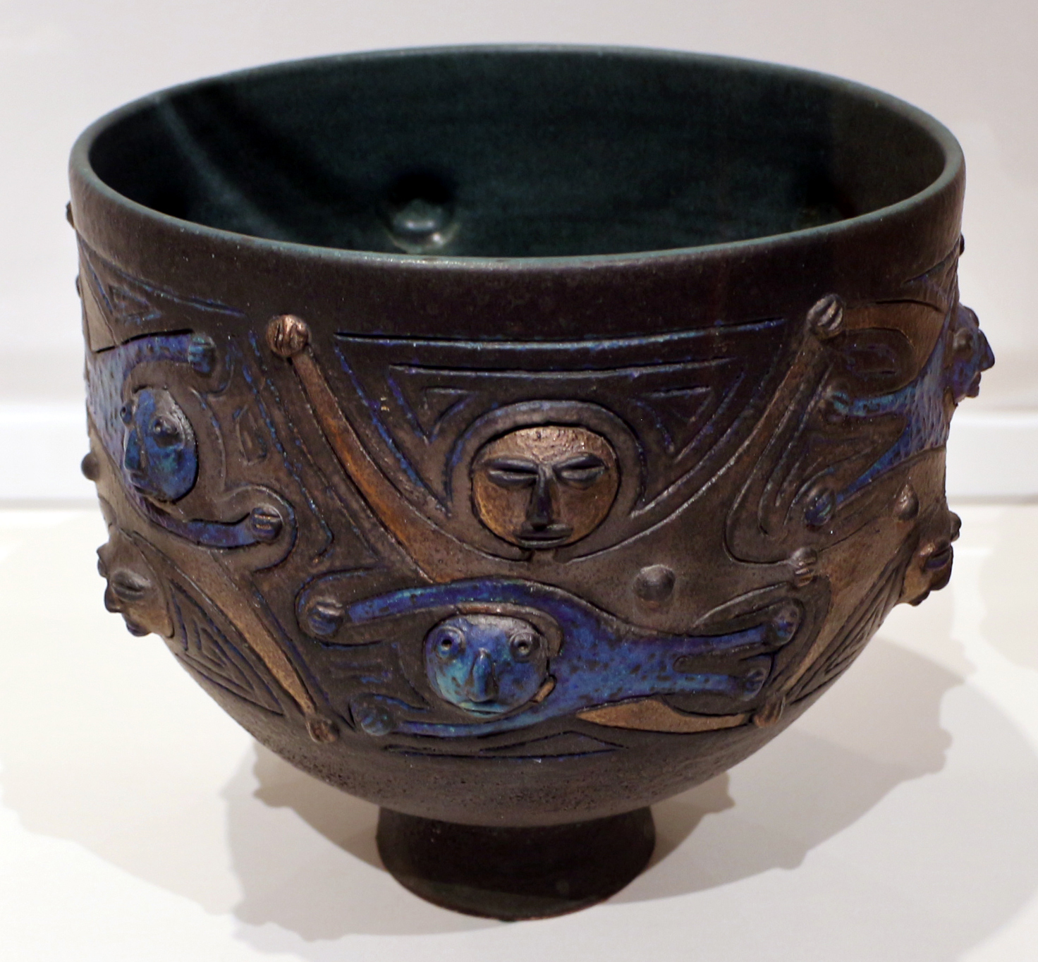 Collections of the Milwaukee Art Museum